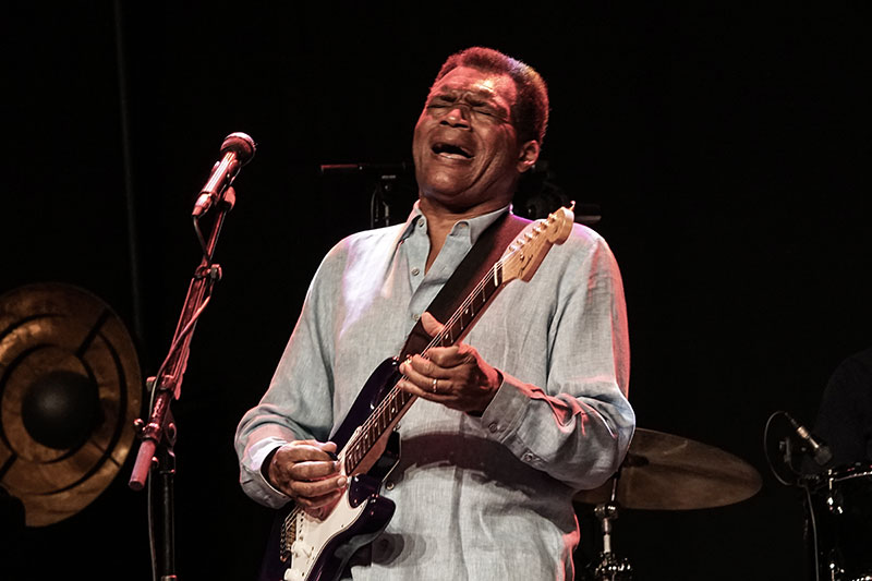 Robert Cray at Blues Heaven Festival, Denmark 2018